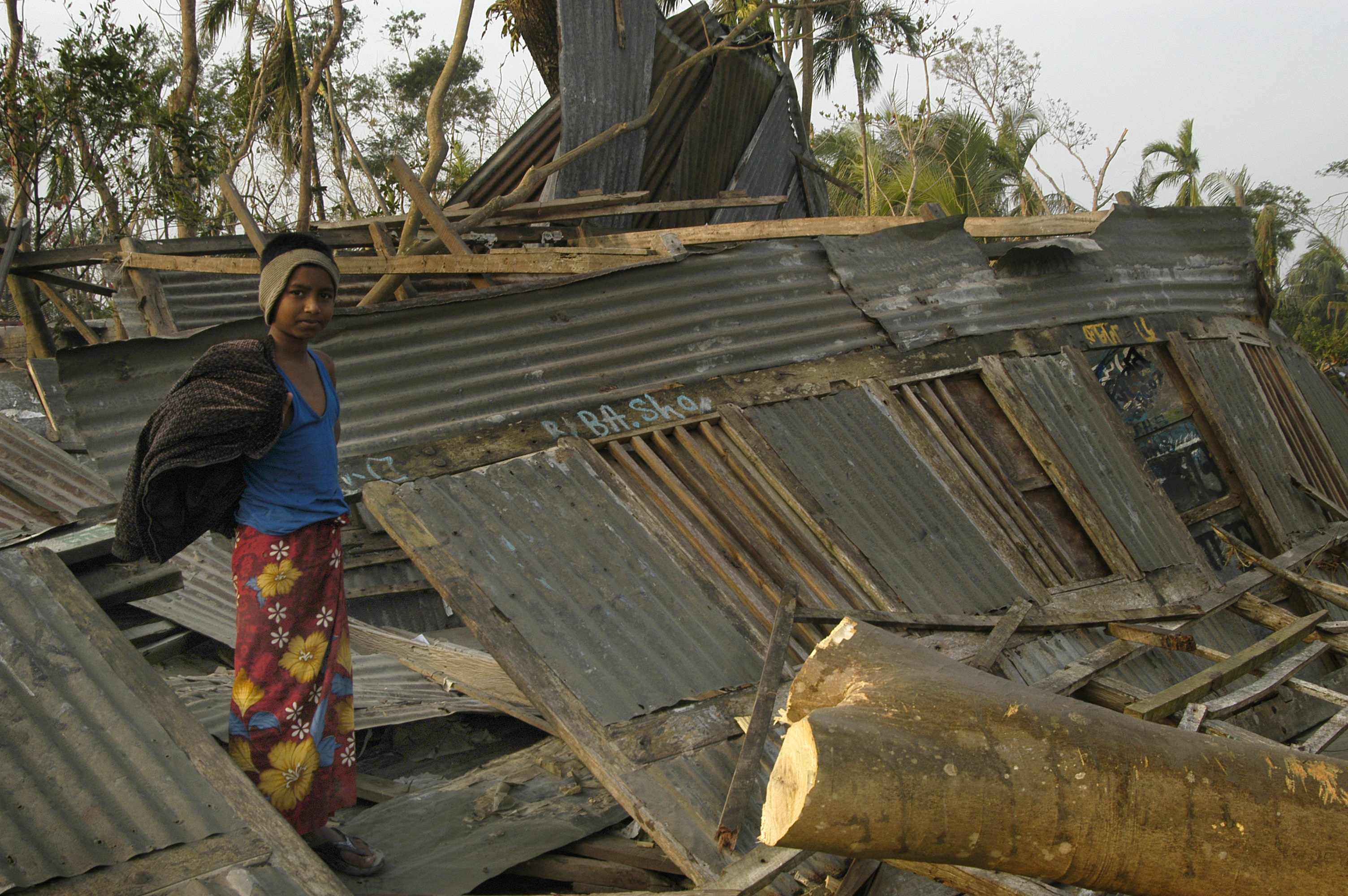 SARANKHOLA, Bangladesh (December 2, 2007) A child of Sarankhola, Bangladesh stands outside of his demolished home.